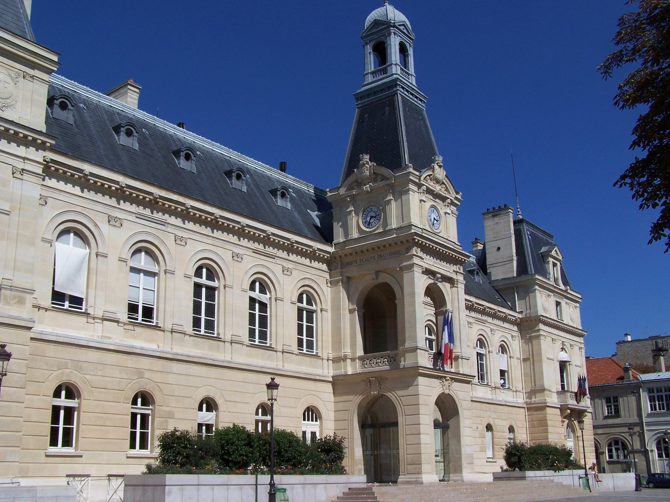 View of the city hall of the 14th arrondissement of Paris